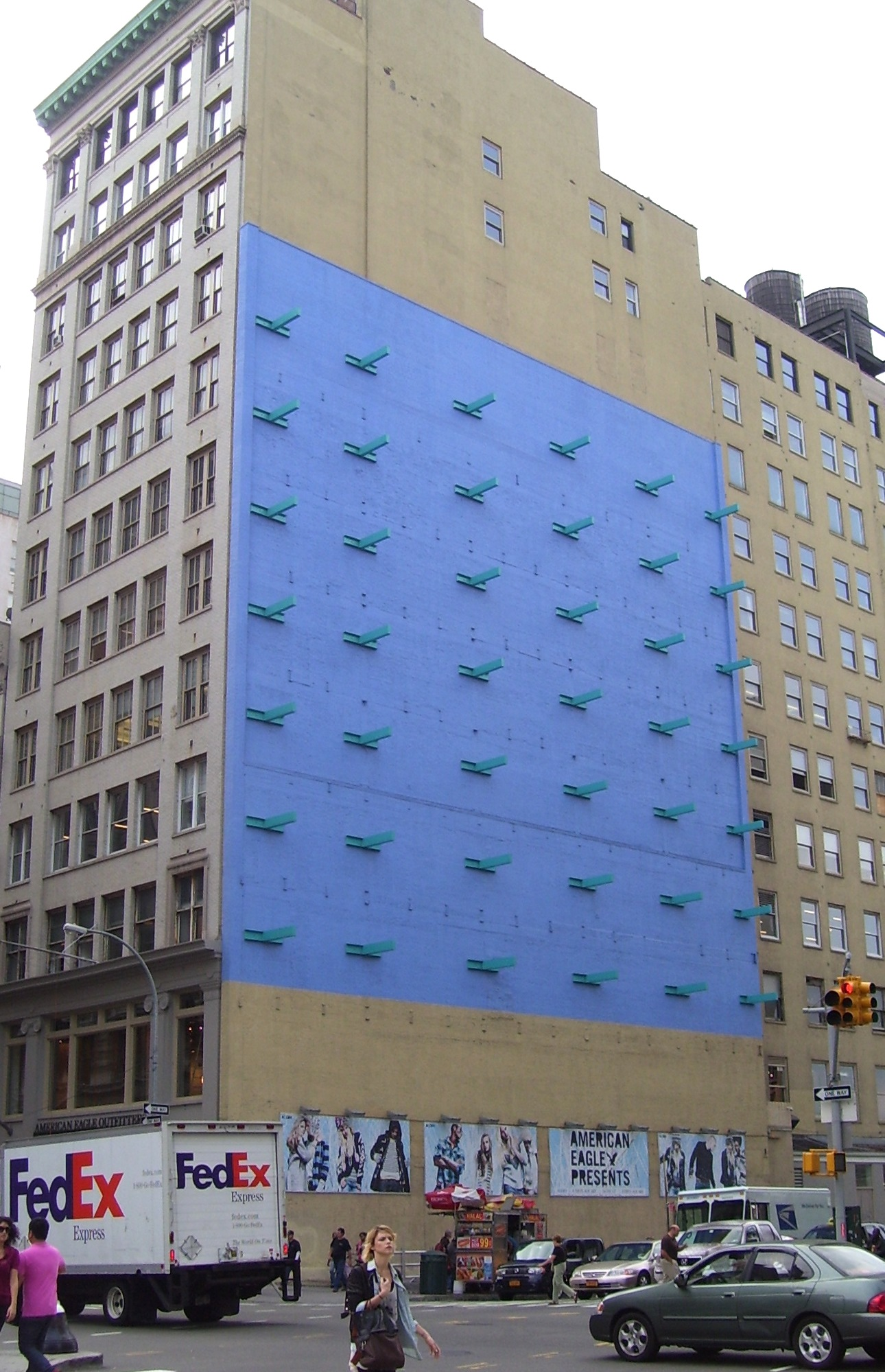 The Wall (1973), also known as "The Gateway to Soho", by Forrest Myers, on the north wall of 599 Broadway at Houston Street